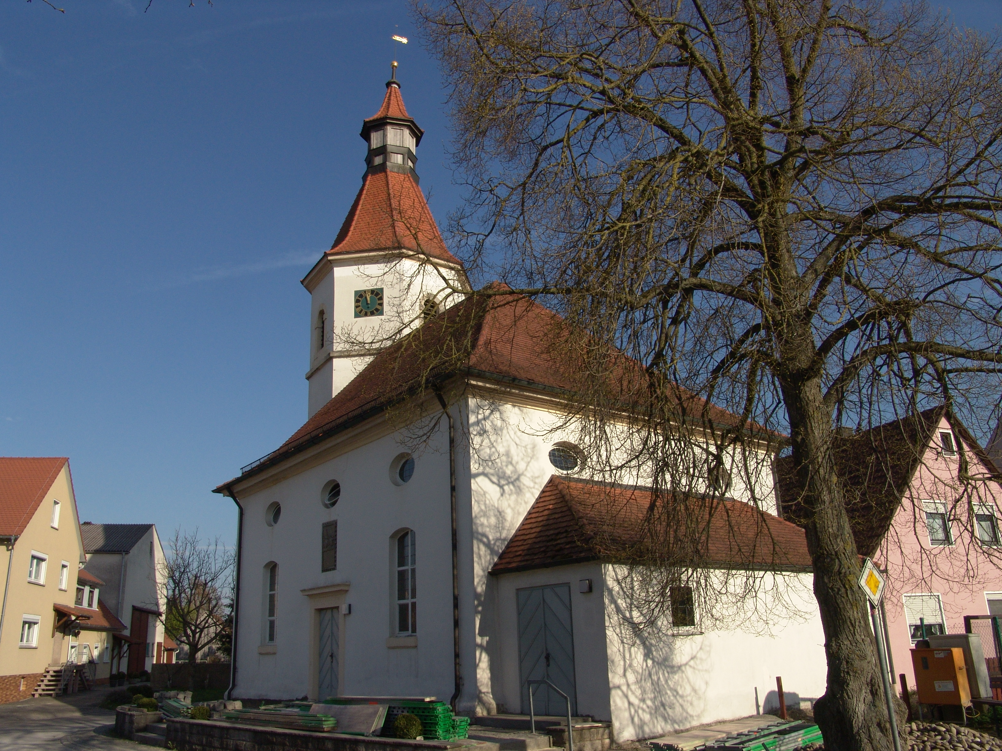 evang.-luth. Kirche St. Maria in Ostheim evang.-luth. Kirche St. Sebastian in Unterampfrach